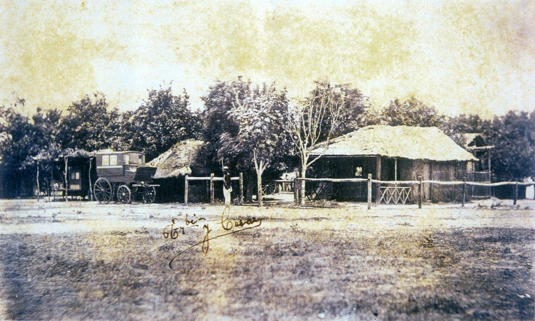 Photo of the house where the Marquis (later Duke) of Caxias lived in Tuyú Cué, c.1867